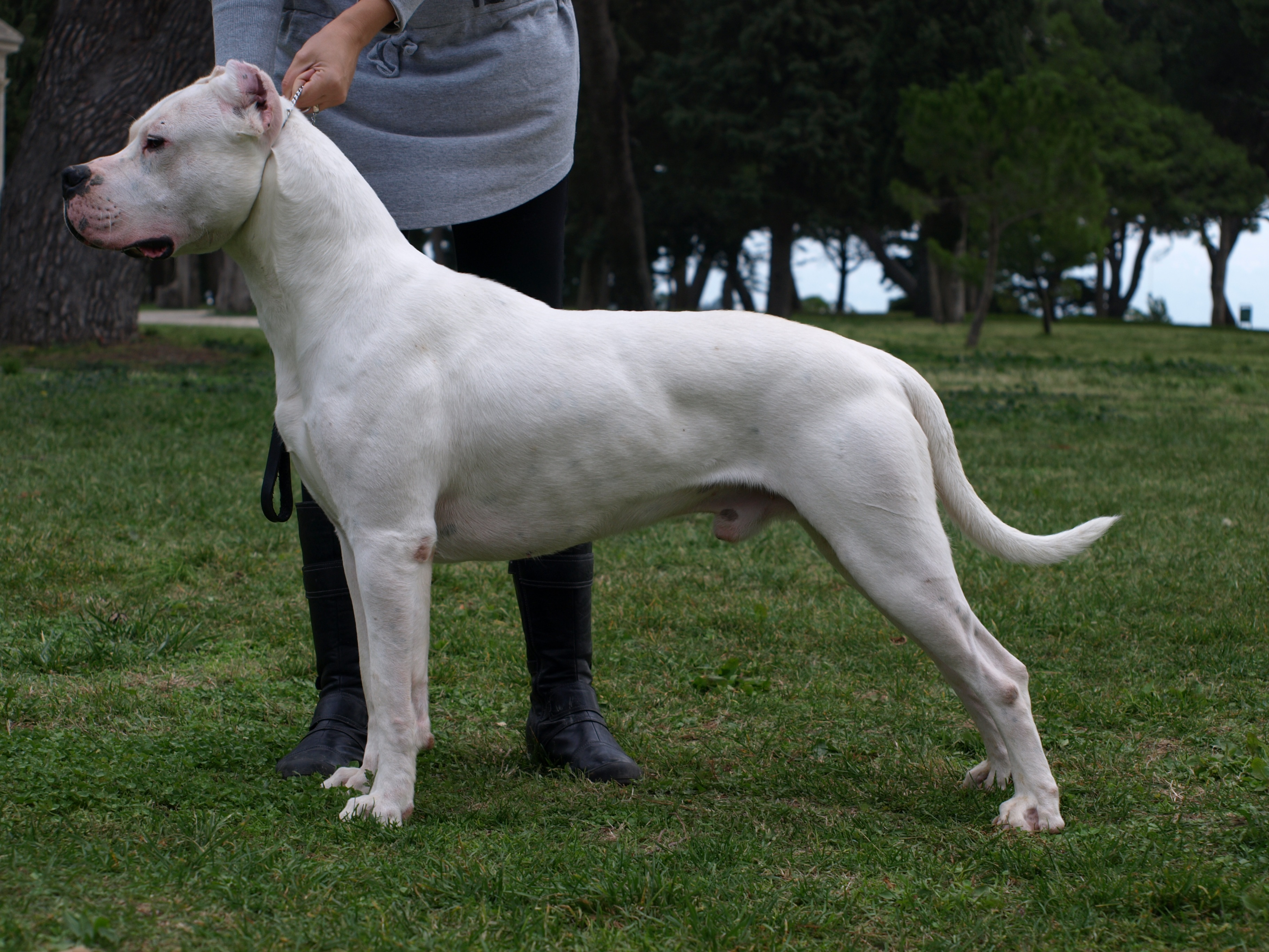 Dogo Argentino dog standing